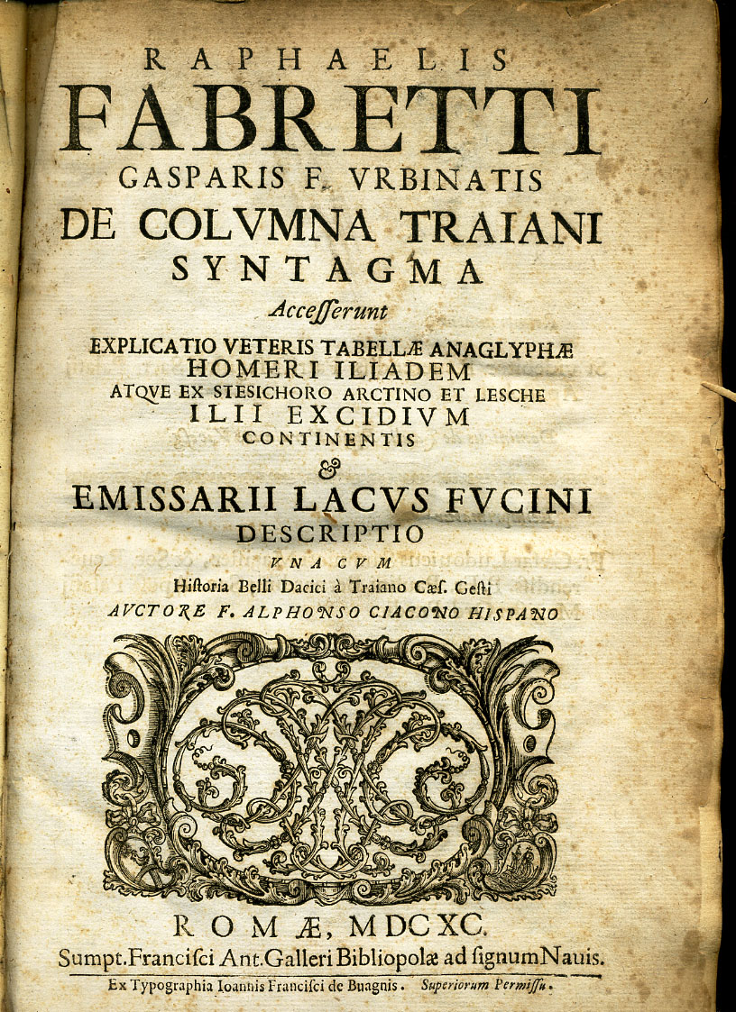 Title Page from the 1690 Edition of Columna Traiani Syntagma